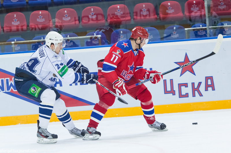 Amur Khabarovsk defenceman Igor Ozhiganov (in white) and CSKA Moscow forward Vladimir Zharkov (in red) during KHL game on November 2, 2012.